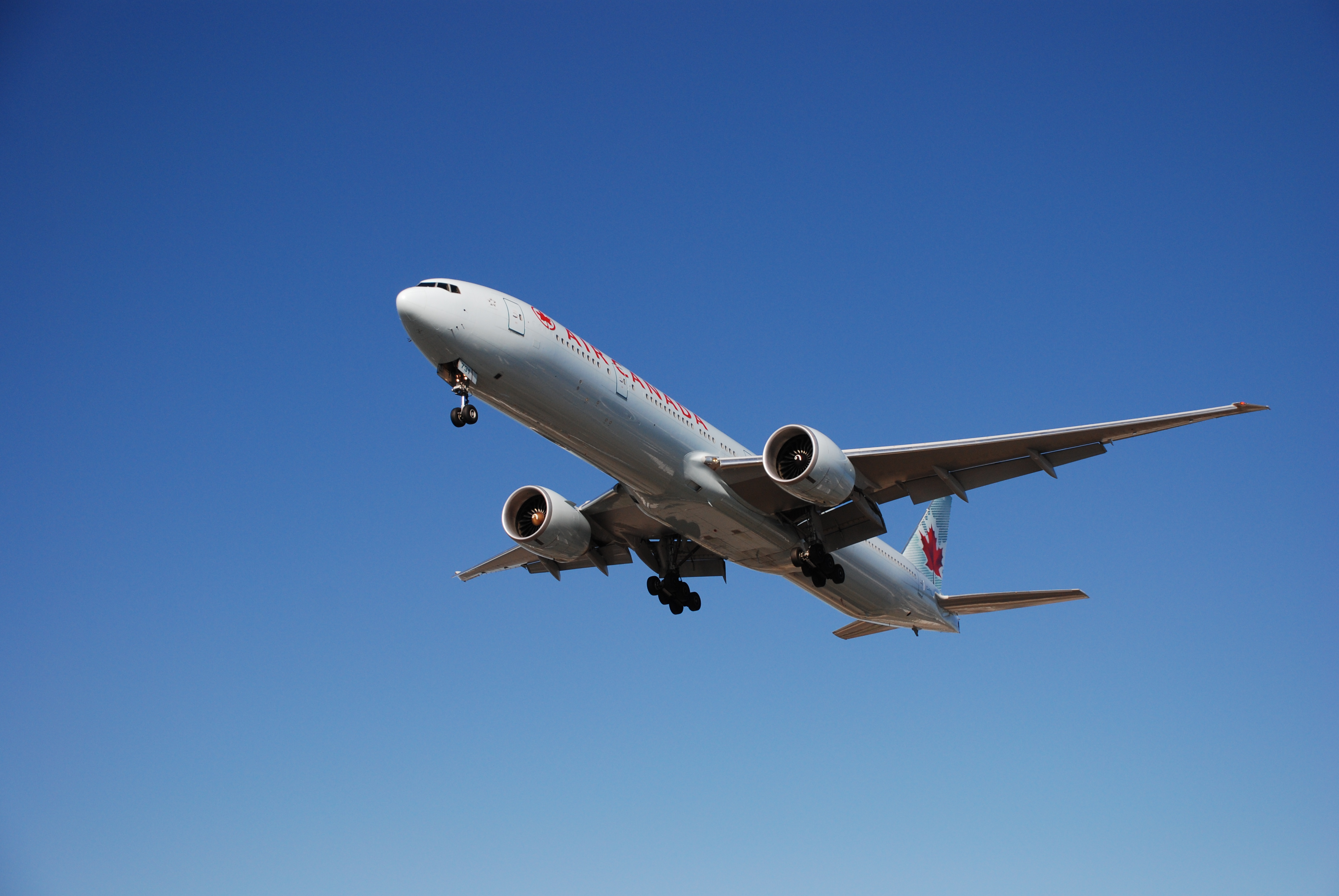 An Air Canada Boeing 777-300/ER landing at Pearson International Airport in Toronto, Ontario